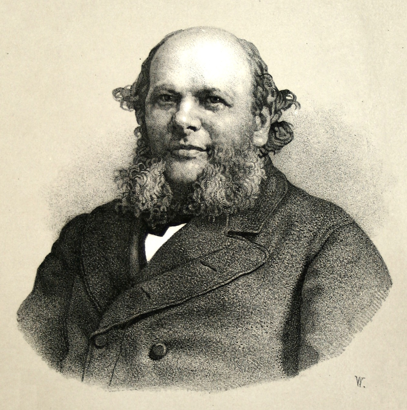 Portrait of David Otto Francke from the book "Svenska industriens män" (1875)